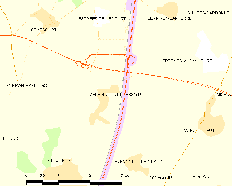 Map of French municipality Ablaincourt-Pressoir